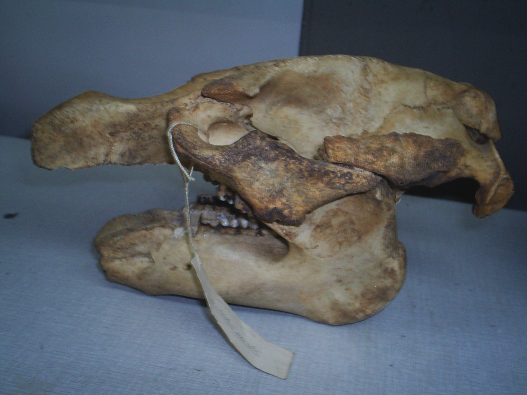 Manatí skull